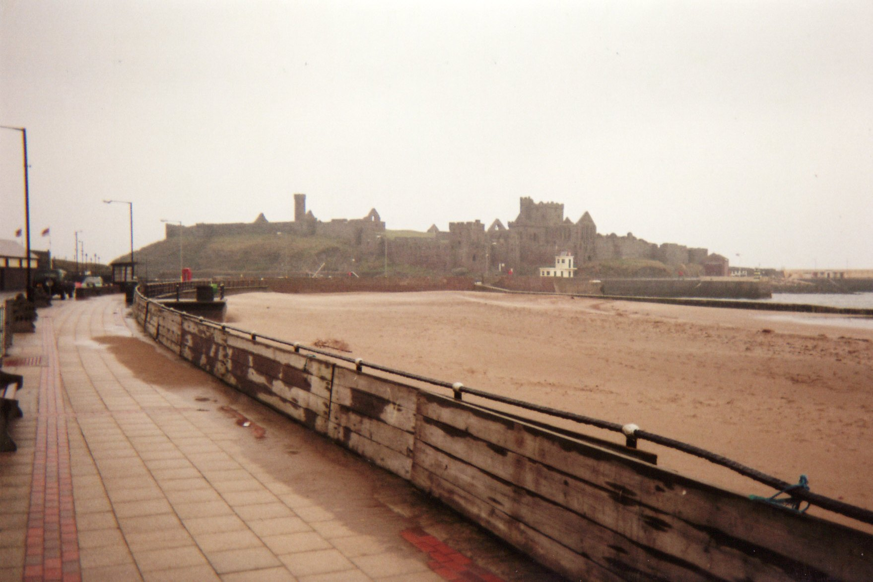 Peel Castle seen from Peel city - late March 2006. Photo by me, Manxruler.